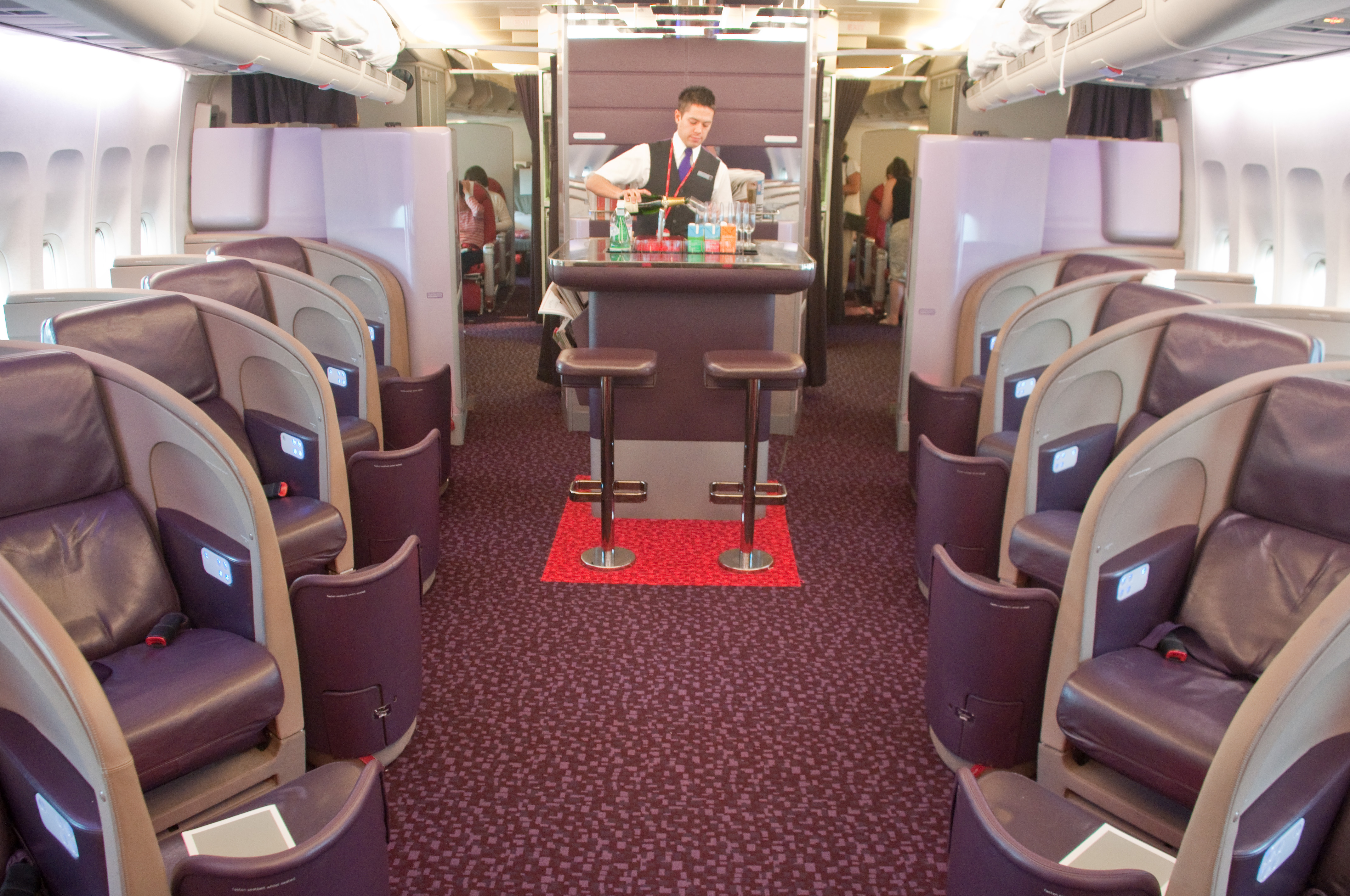 Boarding for Gatwick